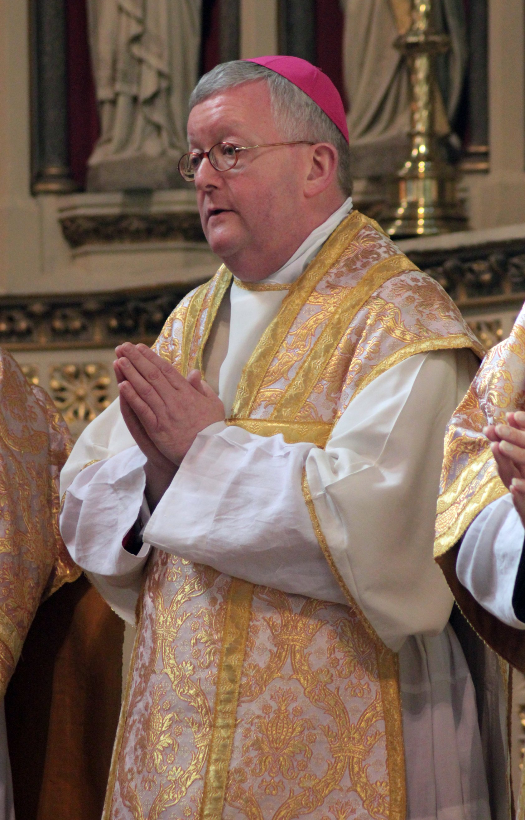 Archbishop Bernard Longley in Oxford Oratory